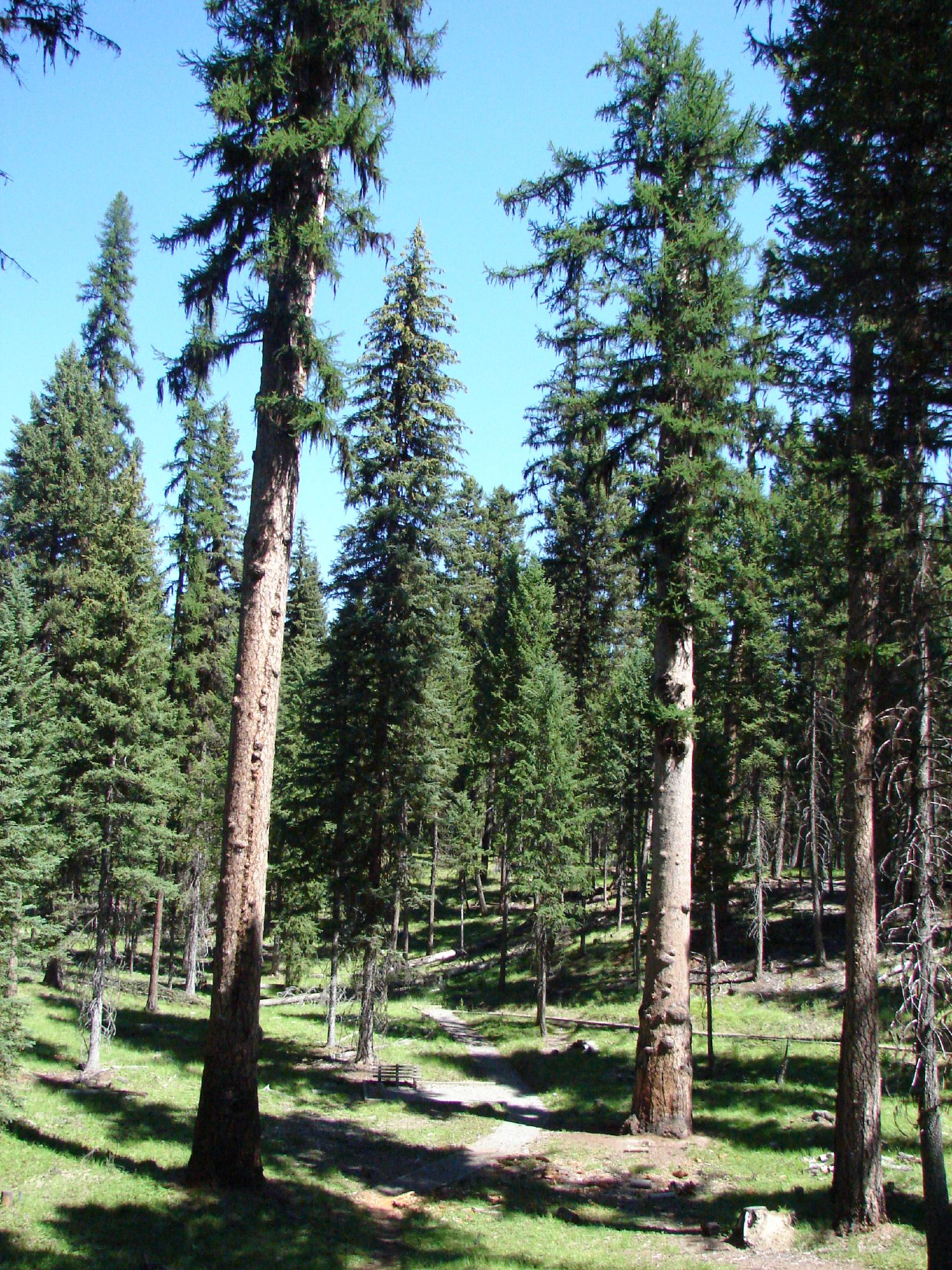 Two large Larix occidentalis, Okanogan, Washington, USA, 48°51'21"N 119°3'11"W, 1156 m altitude.